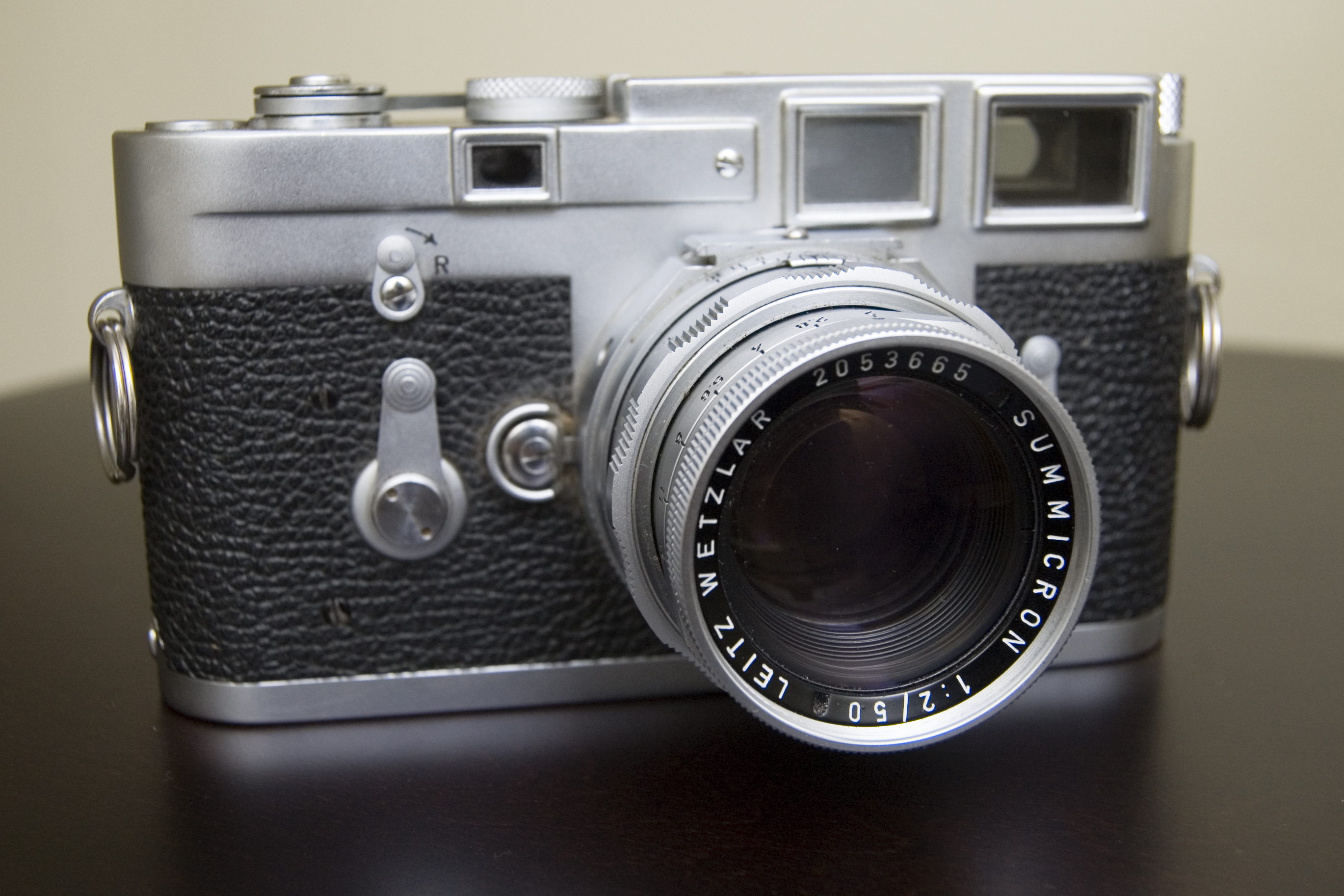 Leica M3 with 50mm Summicron lens.